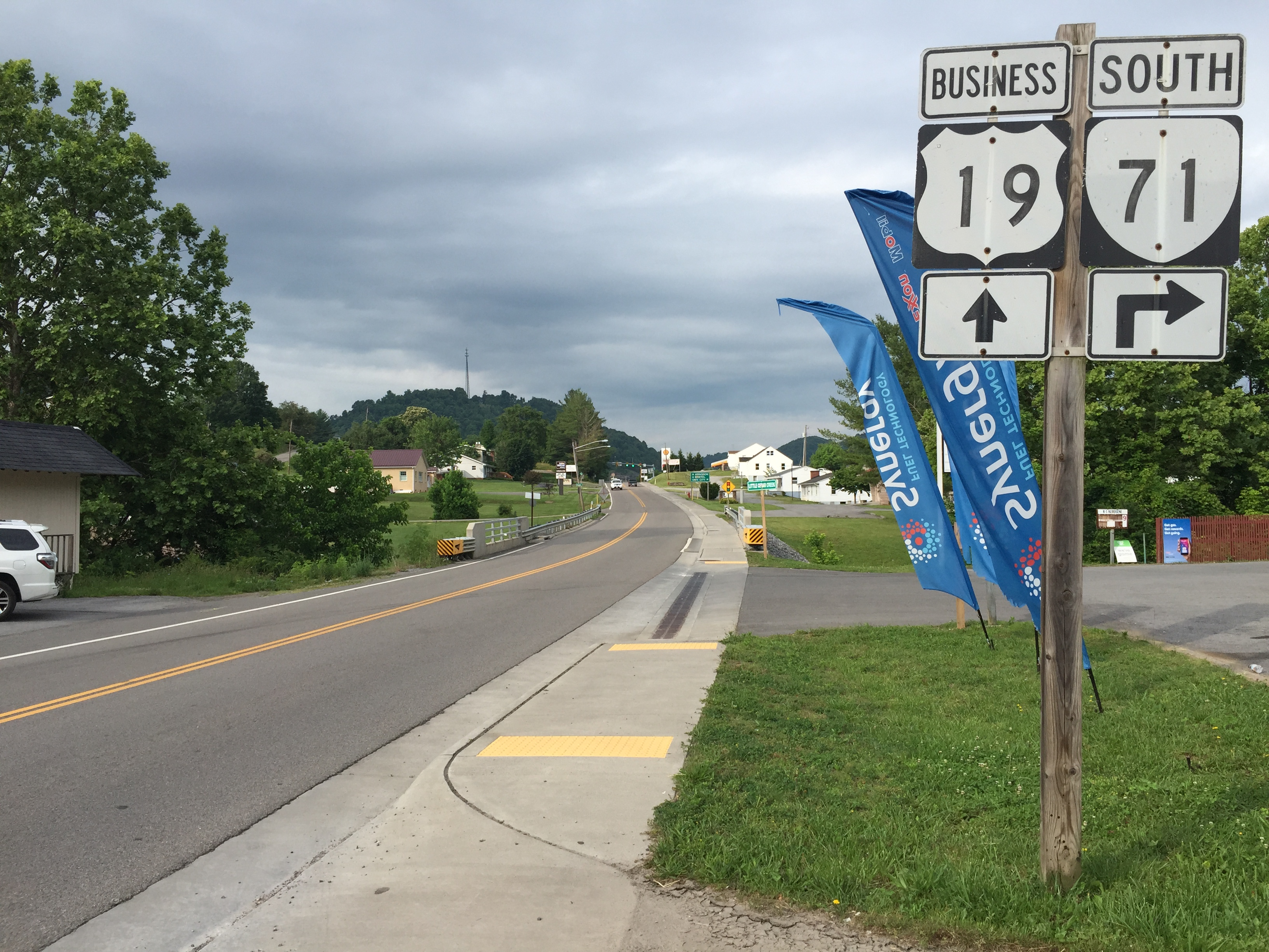 View south along U.S. Route 19 Business (Main Street) at Little Cedar Creek in Lebanon, Russell County, Virginia